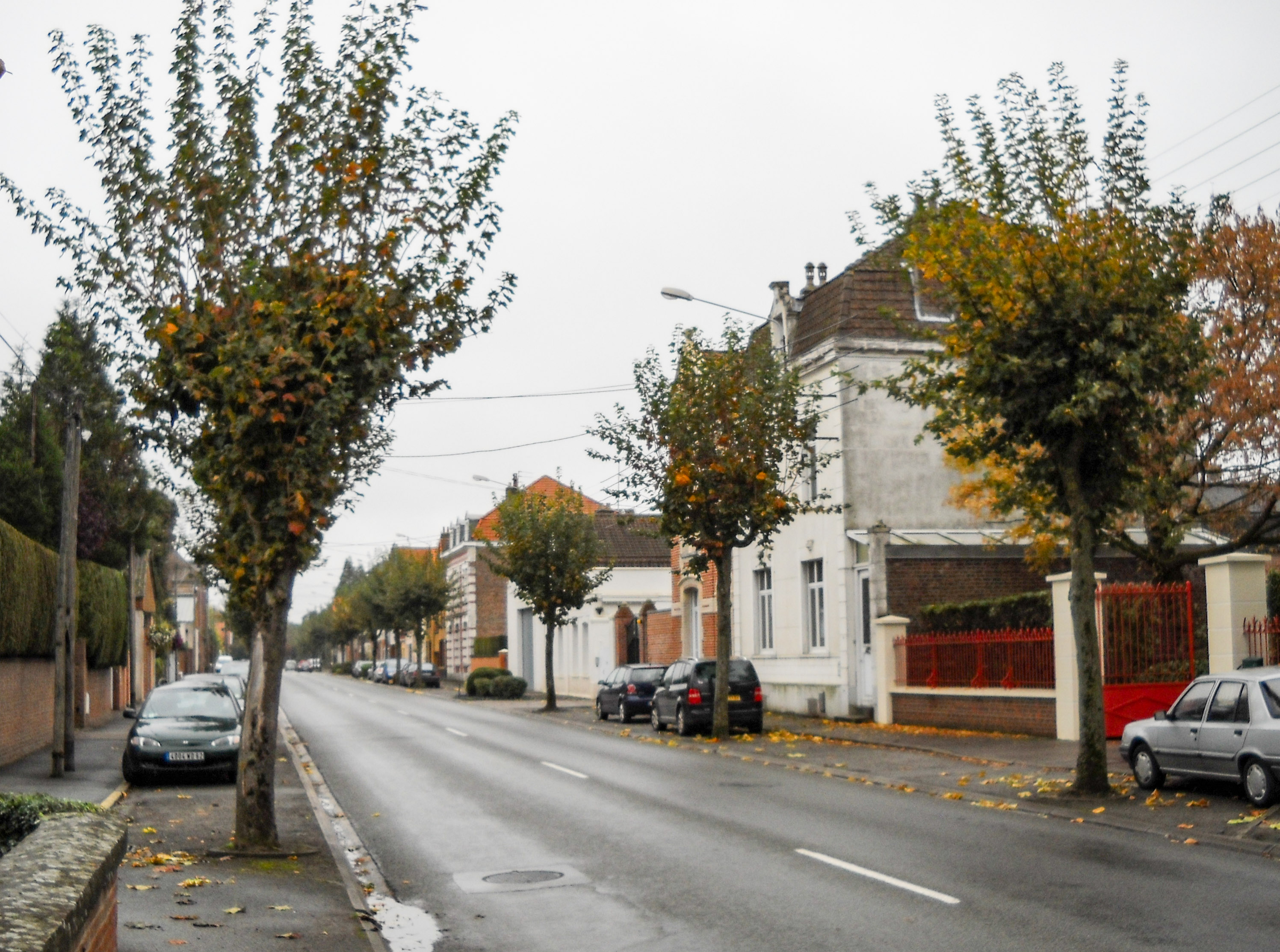 Boulevard Foch, in Aire-sur-la-Lys, Pas-de-Calais, France.